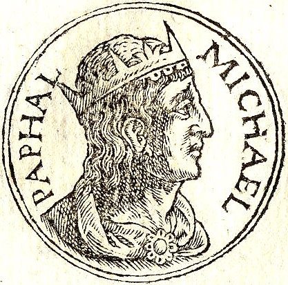 Michael IV the Paphlagonian was Byzantine emperor from April 11, 1034 to December 10, 1041.